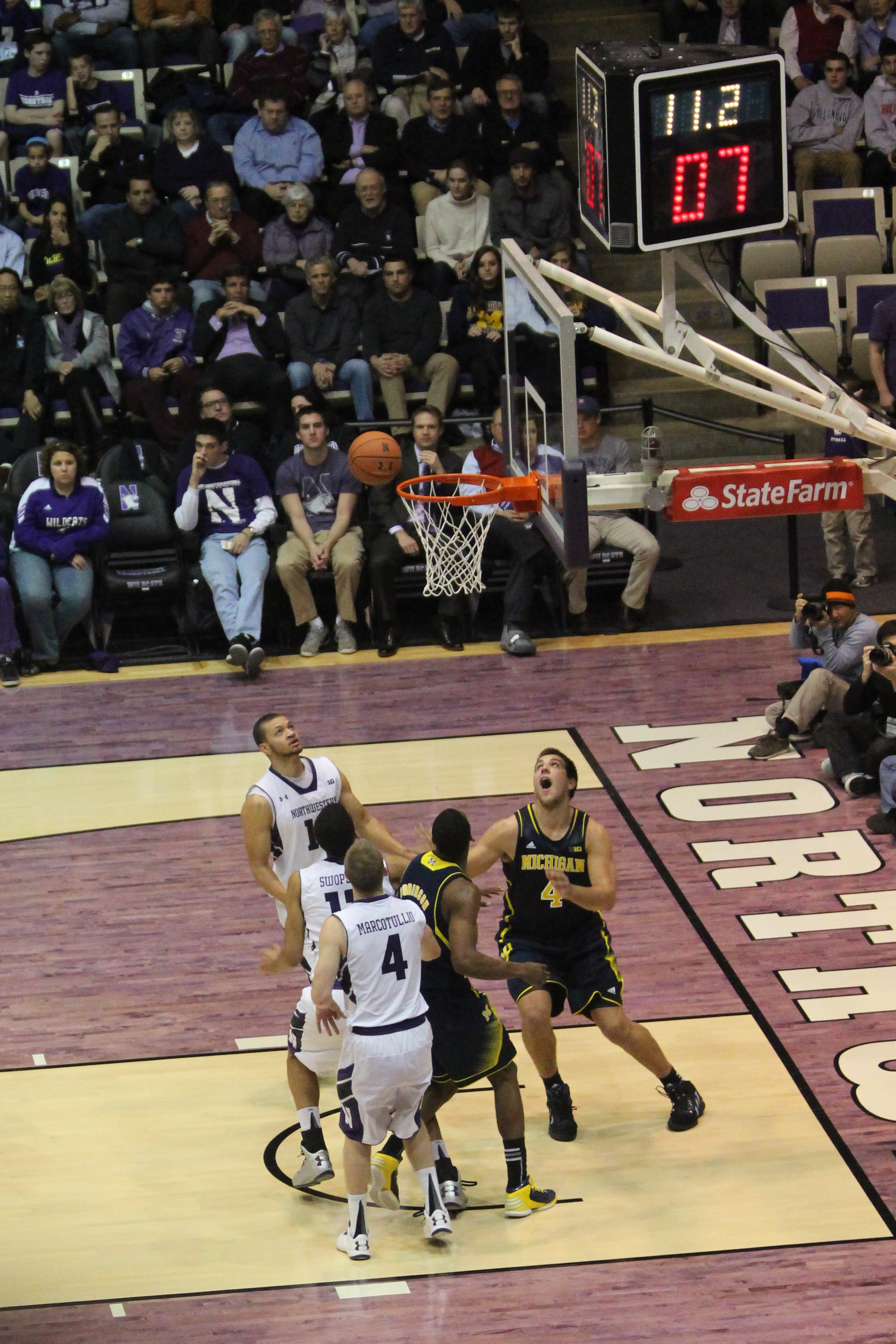 The w:2012–13 Michigan Wolverines men's basketball team and the w:2012–13 Northwestern Wildcats men's basketball team anticipate a rebound in the w:2012–13 Big Ten Conference men's basketball season opener on January 3.